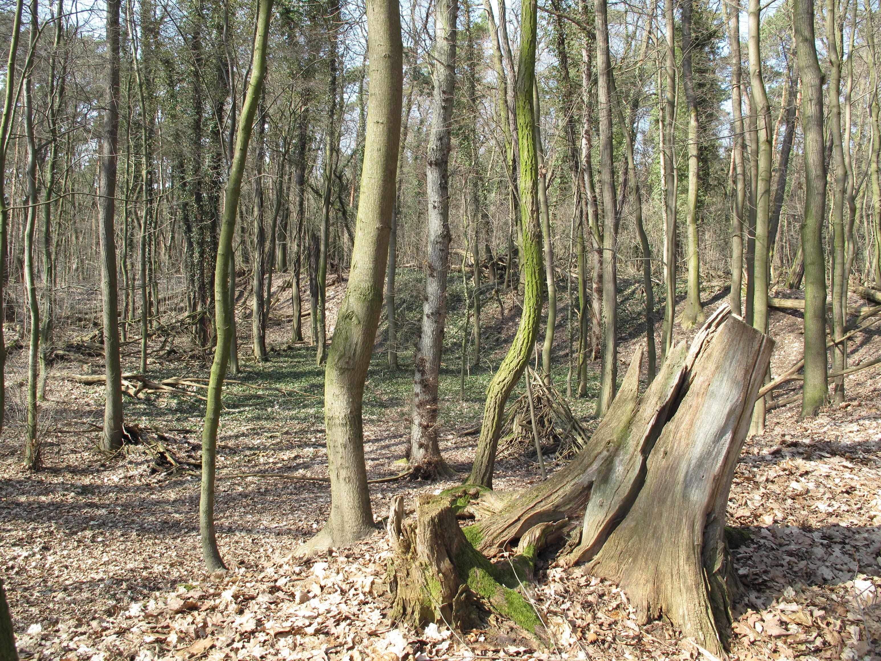 Former Clay pit at the Großer Seddiner See. The Großer Seddiner See is a glacial lake in the nature park Nuthe-Nieplitz in Germany, Brandenburg, district Potsdam-Mittelmark, and covers 2,18 km². The lake is situated in the municipalities Seddiner See and Michendorf.